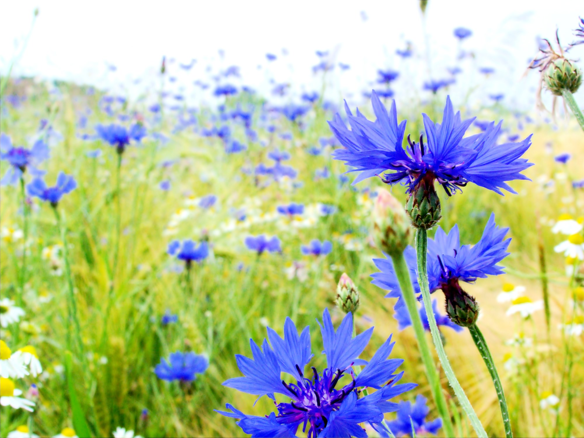 Name: Centaurea cyanus and chamomile in a field of barley. Family: Asteraceae. Location: Münster, NRW, Germany